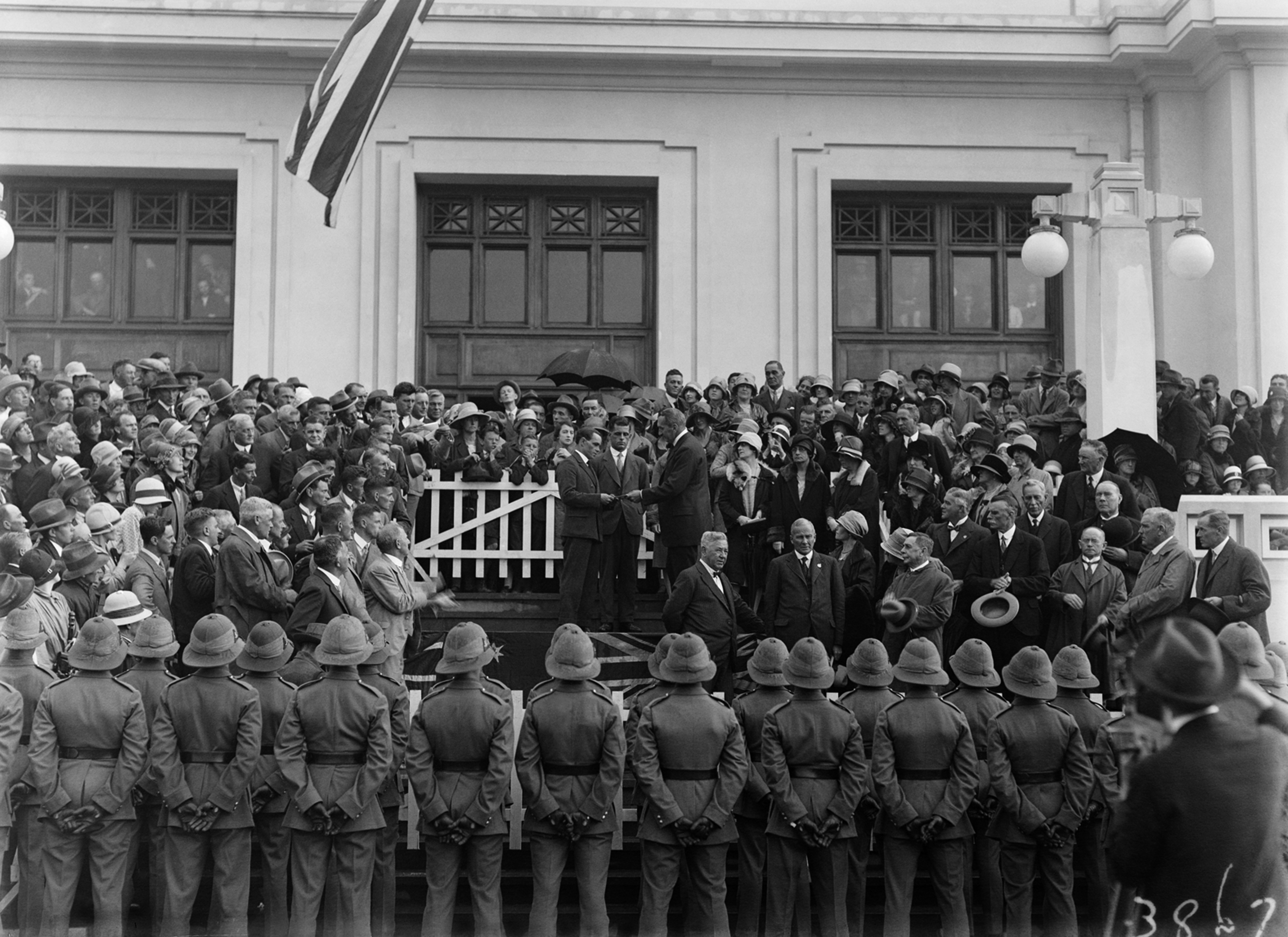 Prime Minister Bruce presents a cheque and cigarette case to aviator Bert Hinkler in front of Parliament House, after the first solo flight from England to Australia, 1928. National Archives of Australia: barcode - 3098043, series accession number - A3560.